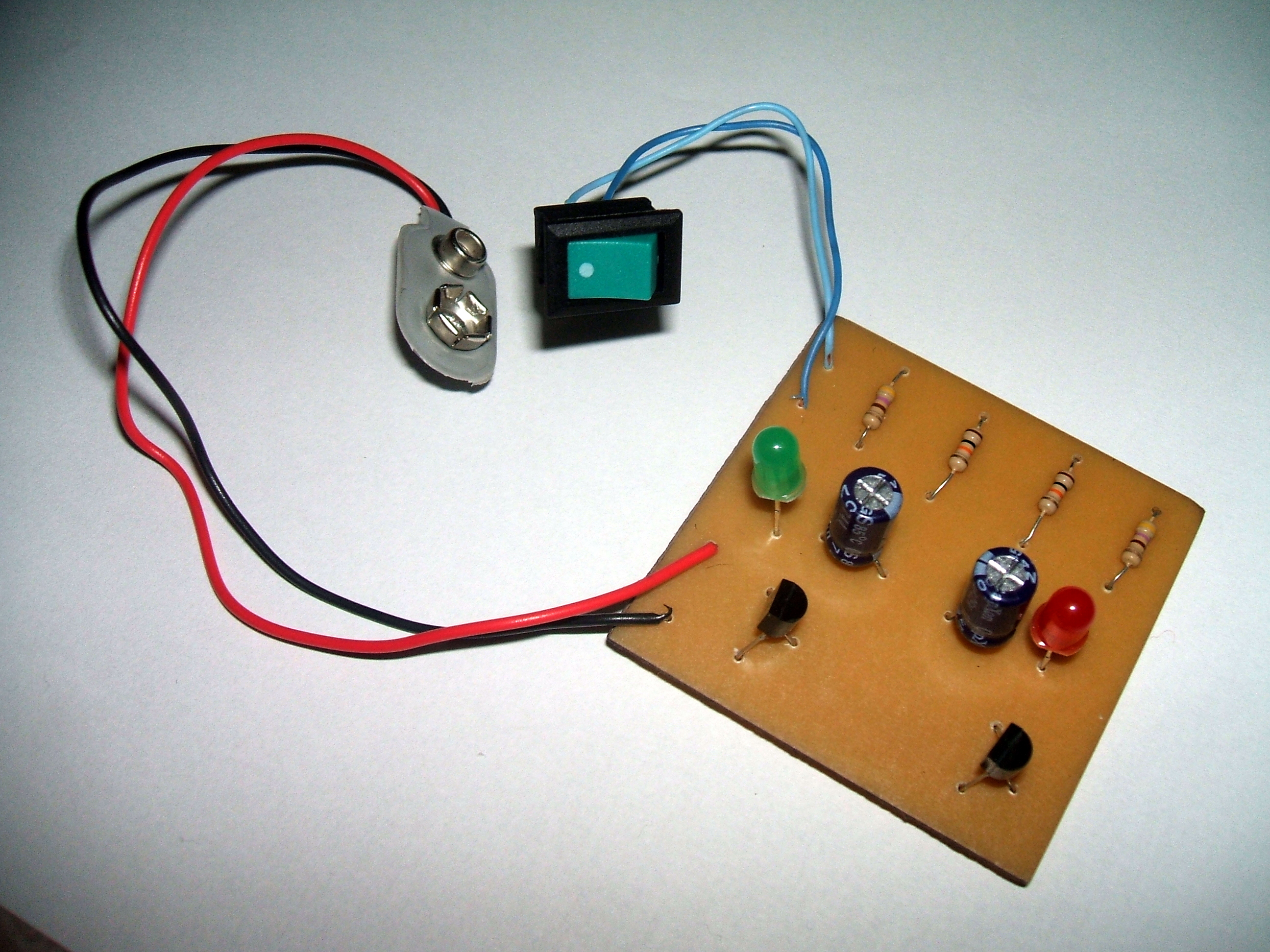 Astable Multivibrator